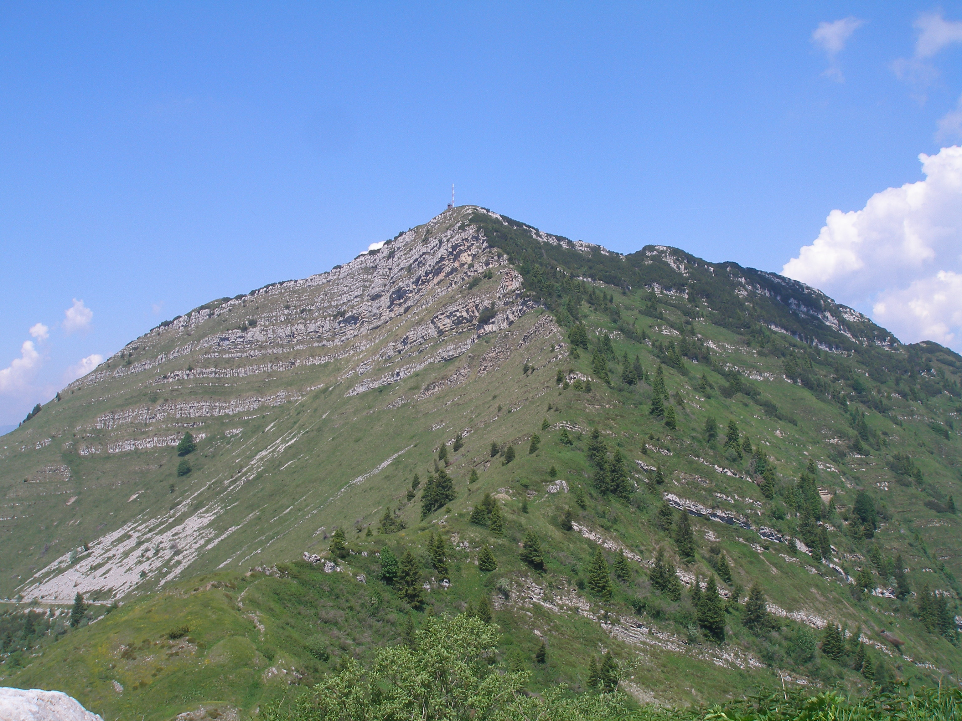 Monte Tremalzo from the south-east